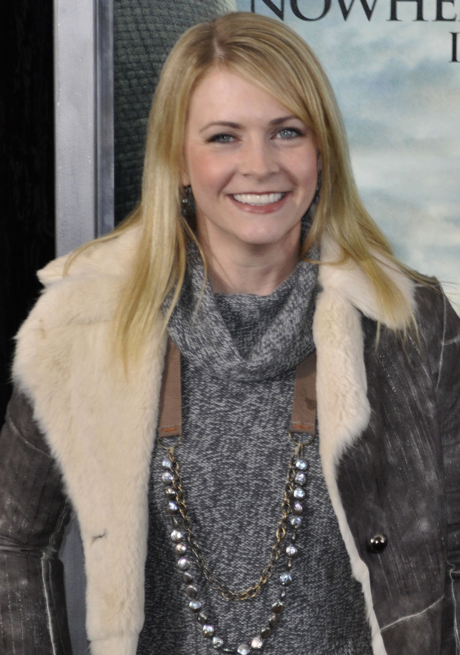 Melissa Joan Hart at the film premiere of Harry Potter and The Deathly Hallows in Alice Tully Center, New York City in November 2010.